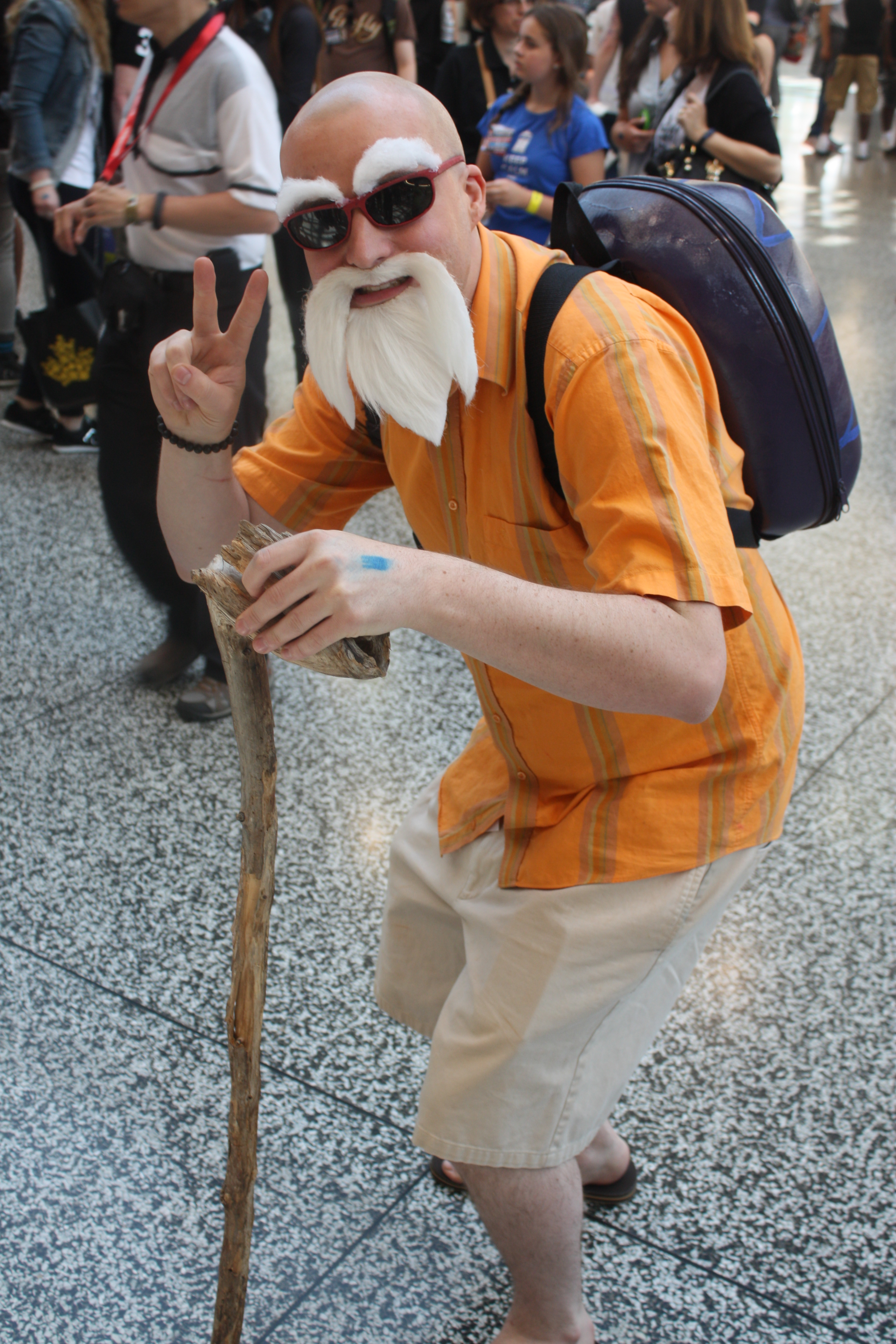 Cosplay one day two of Montreal Comiccon 2015.